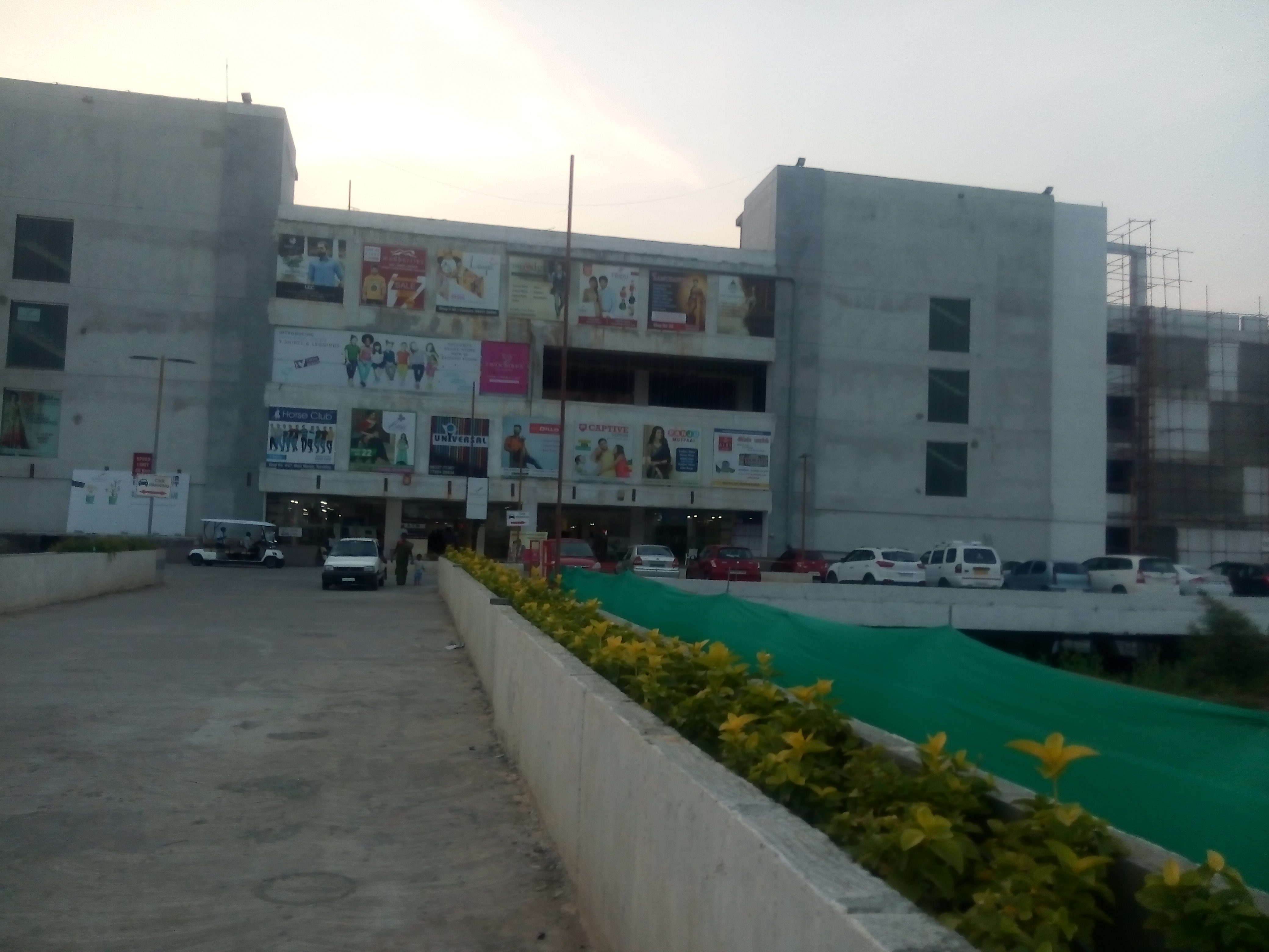 One of the shopping blocks of TexValley located near Chittode, Erode dist.